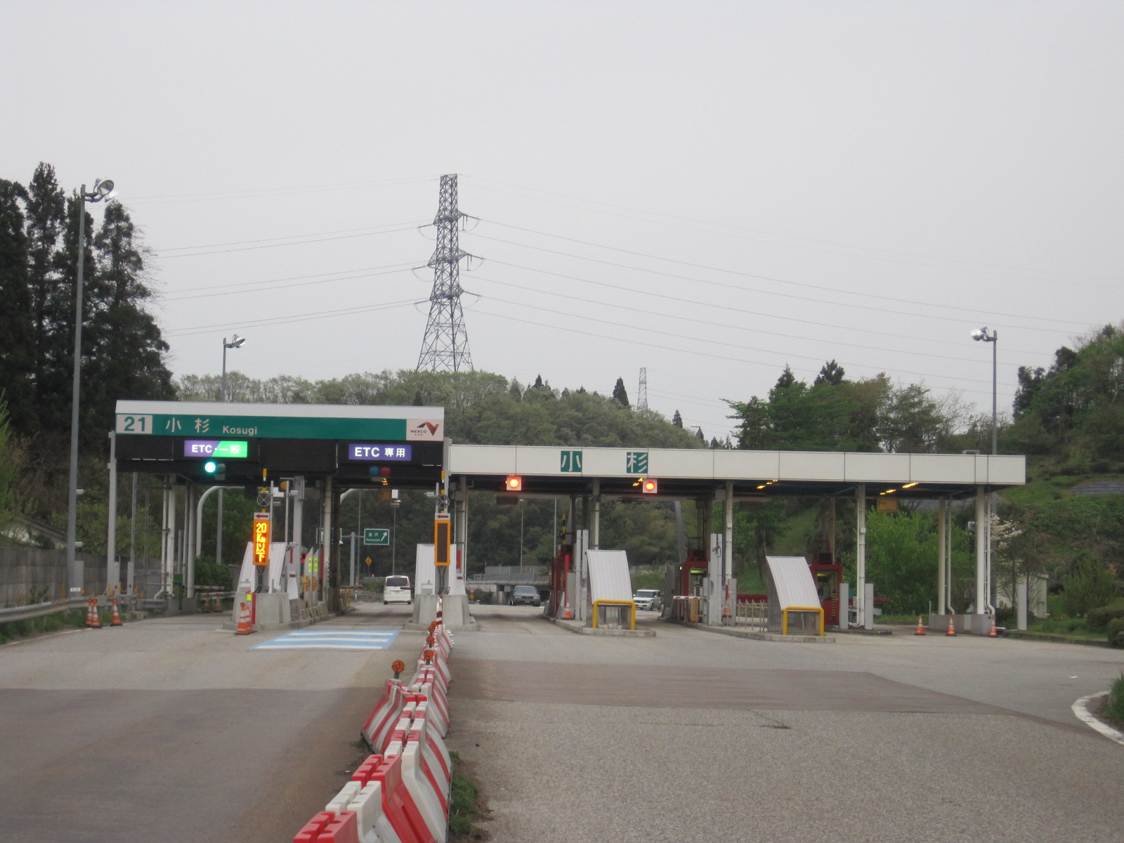 Kosugi Inter Change (Hokuriku Expressway, Toyama prefecture, Japan)